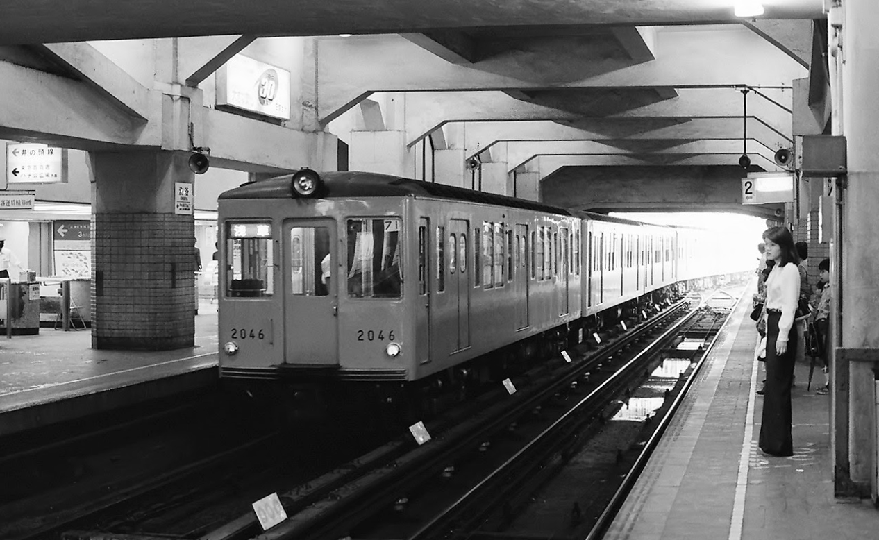 A TRTA Ginza Line 2000 series train at Shibuya Station